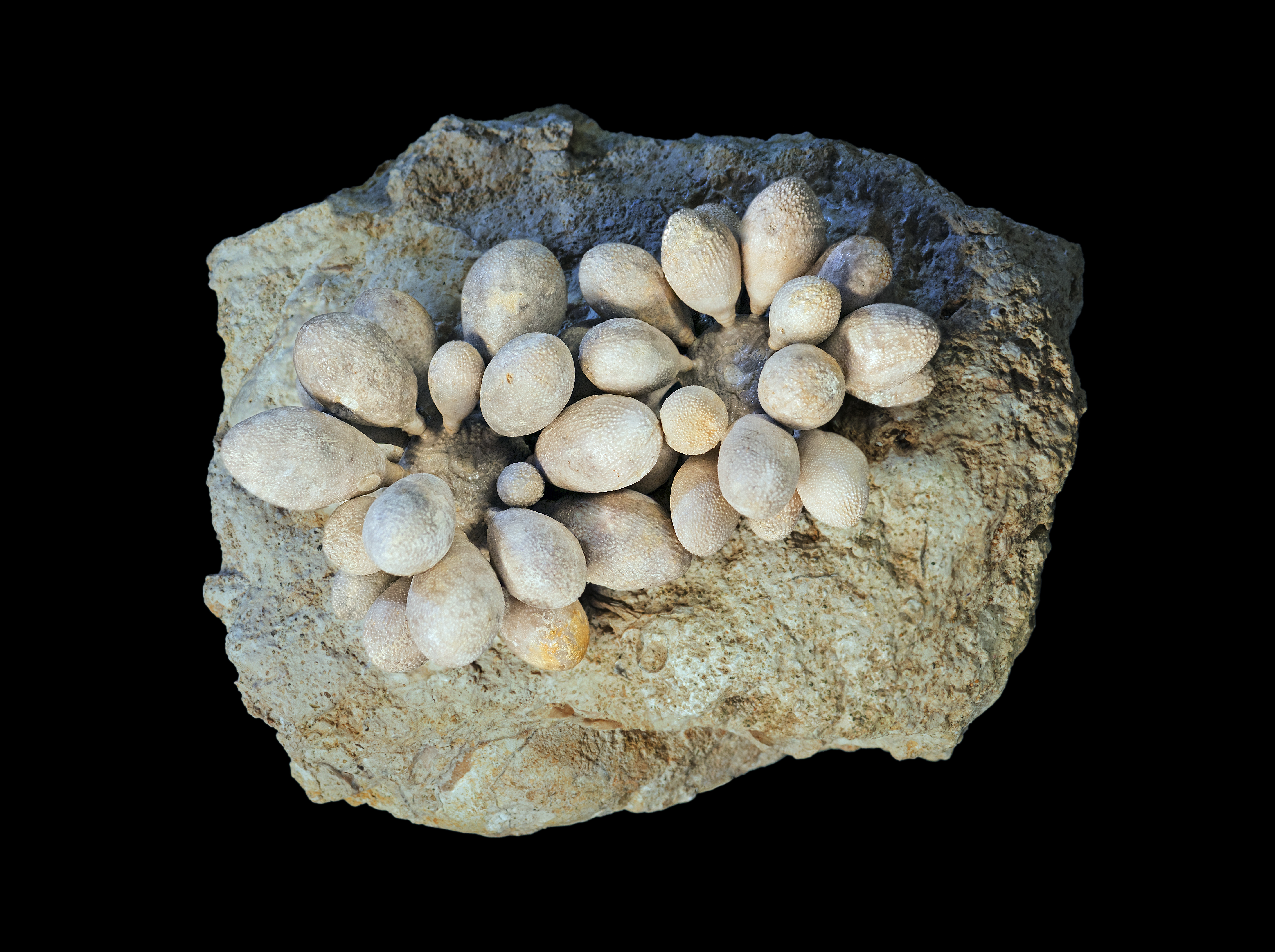 Pseudocidaris mammosa Stage : Kimmeridgian 157.3 ± 1.0 Ma and 152.1 ± 0.9. (million years ago)